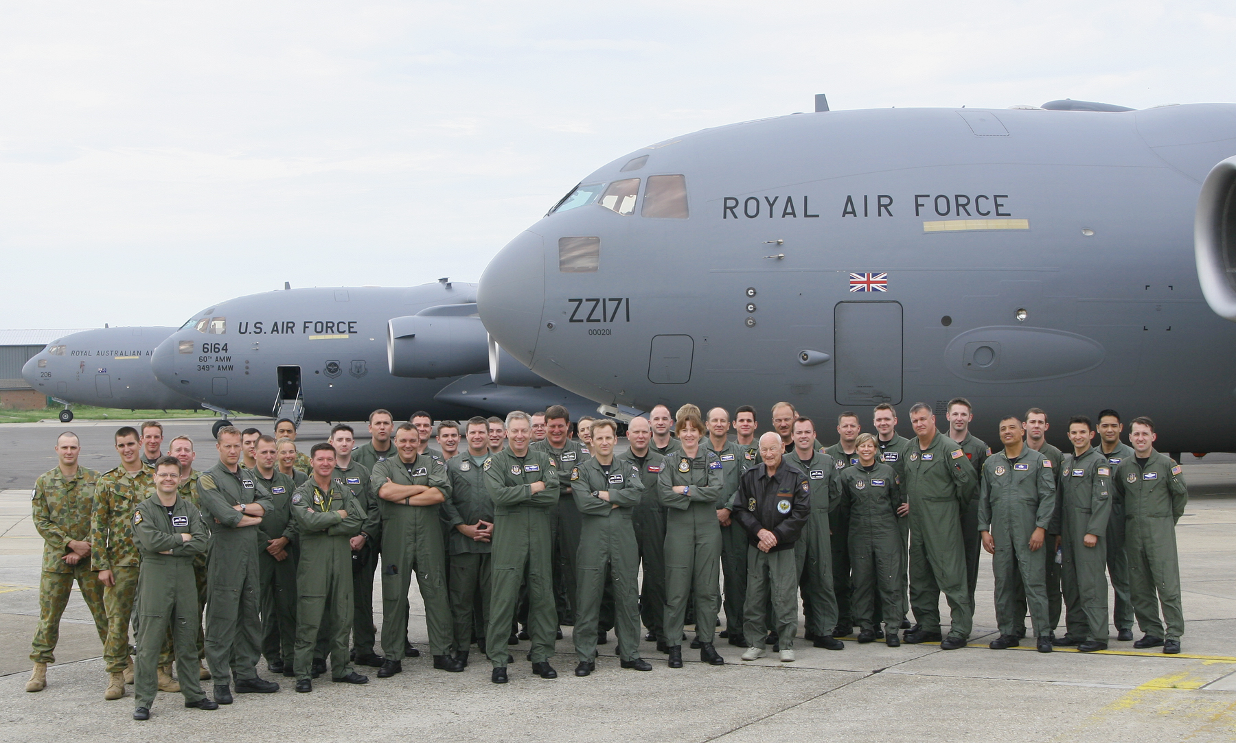 The 301st Airlift Squadron (U.S. Air Force), 99 Squadron, Royal Air Force, and 36th Squadron, Royal Australian Air Force, C-17 flight crews and aircraft maintenance personnel assemble in front of their C-17s on the flightline at Royal Air Force Brize Norton, United Kingdom, June 4. In the front row are the squadron commanders: Lt. Col. Stephen Rickert, 301st Airlift Squadron commander; Wing Commander John Gladston, 99 Squadron commander; and Wing Commander Linda Corbould, 36th Squadron commander, along with Col. Lloyd Neblett, retired commander of the 301st Troop Carrier Squadron, predecessor to the 301st. The crews met for the first time as sister squadrons, re-establishing a relationship with the British that goes back to World War II.